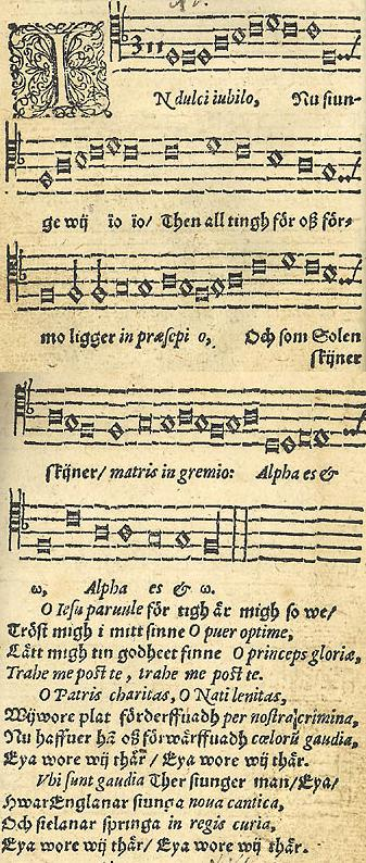 The first page of "In Dulci Jubilo" in the original version of the Piae Cantiones.